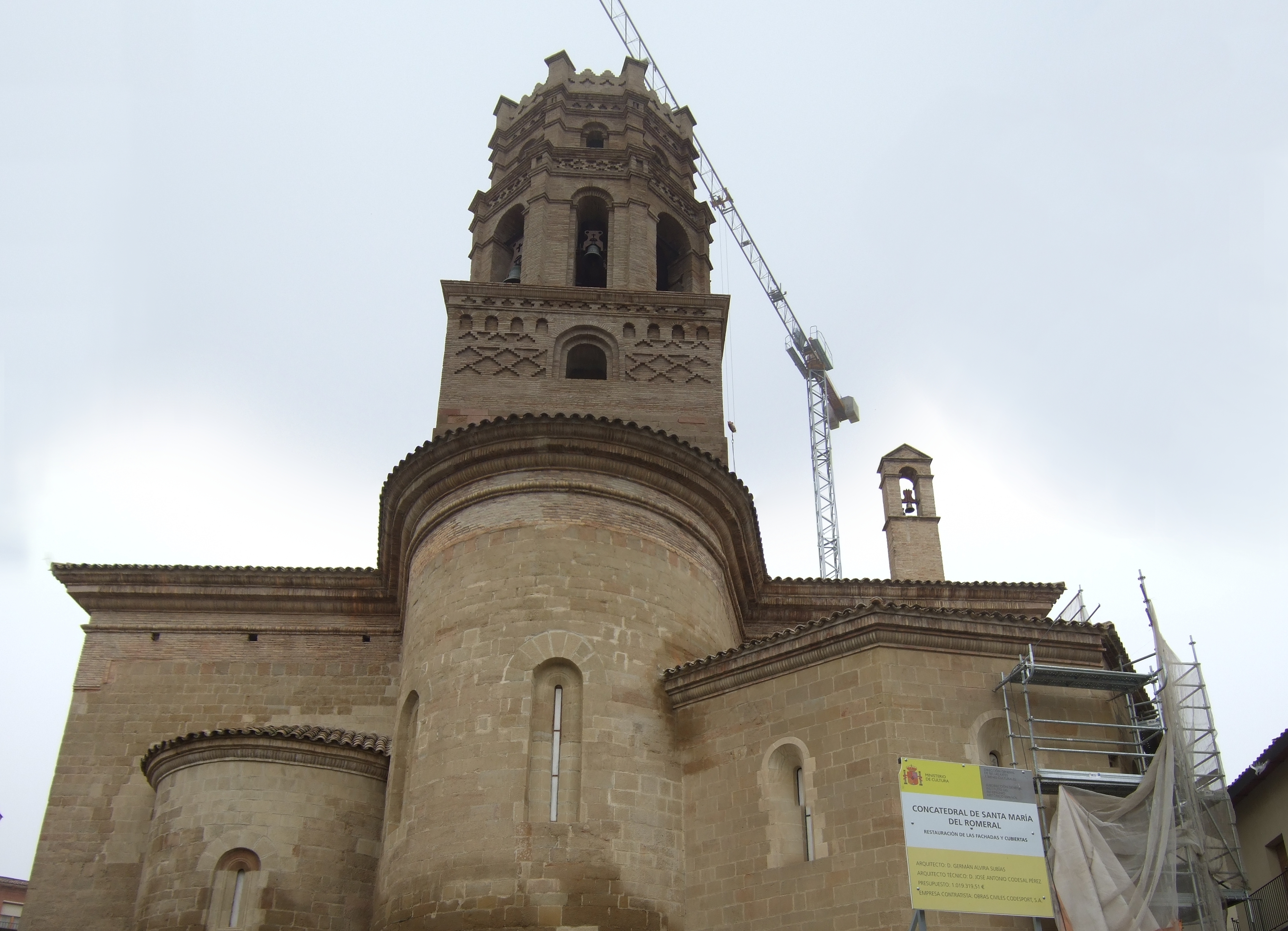 Cathedral of Monzon (Aragon, Spain)